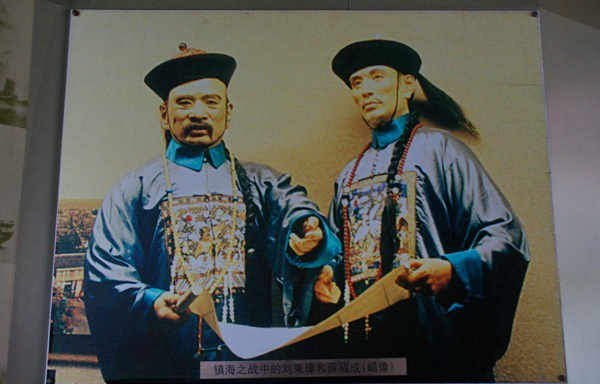 Portrait of Liubingzhang and Xuefucheng during Zhenhai campaign